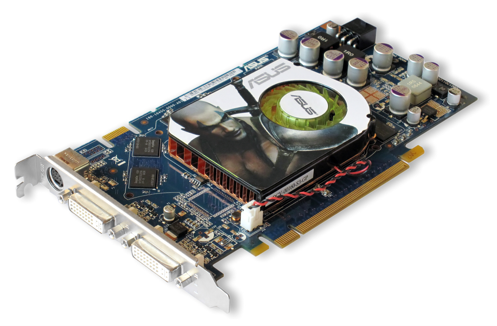 Asus EN7900GS TOP/2DHT/256M Graphic Card nVidia GeForce 7900 GS 256 MB DDR3 (256-bits) 24 pixel pipelines DirectX 9 2x DVI (2x VGA with adapter) TV out SLI Ready HDTV support & HDCP compliant PCI Express 16x